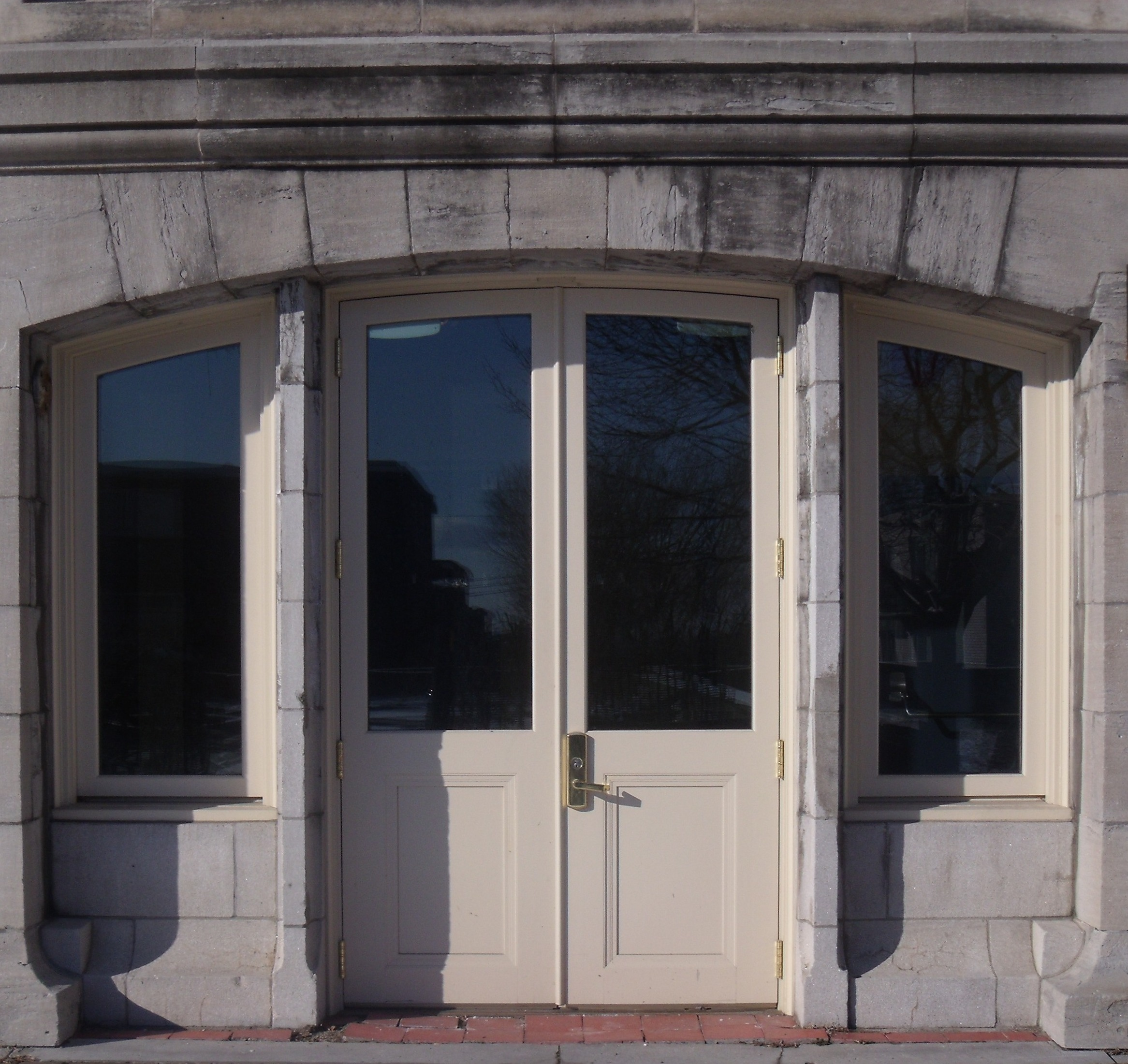 Arc with false carved keystone, Château Dufresne, 4040 Sherbrooke Street East, Montreal, Quebec, Canada.